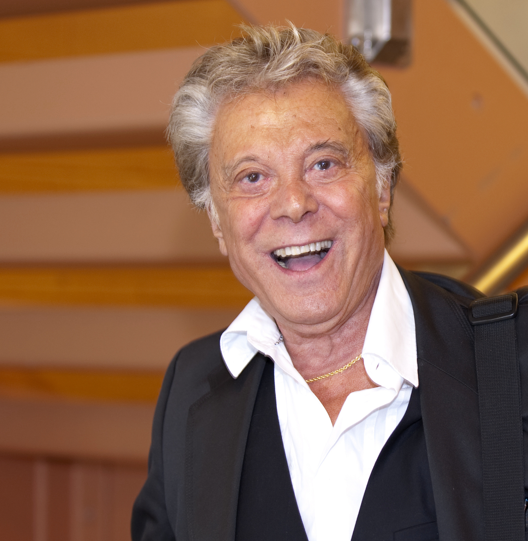 Legendary entertainer Lionel Blair at the Leeds Jewish International Performing Arts Festival 2010 on Sunday 6th June.